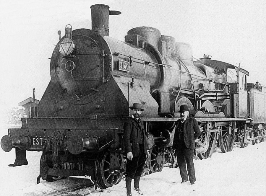 Locomotive Est, future SNCF 230 K, before 1914.